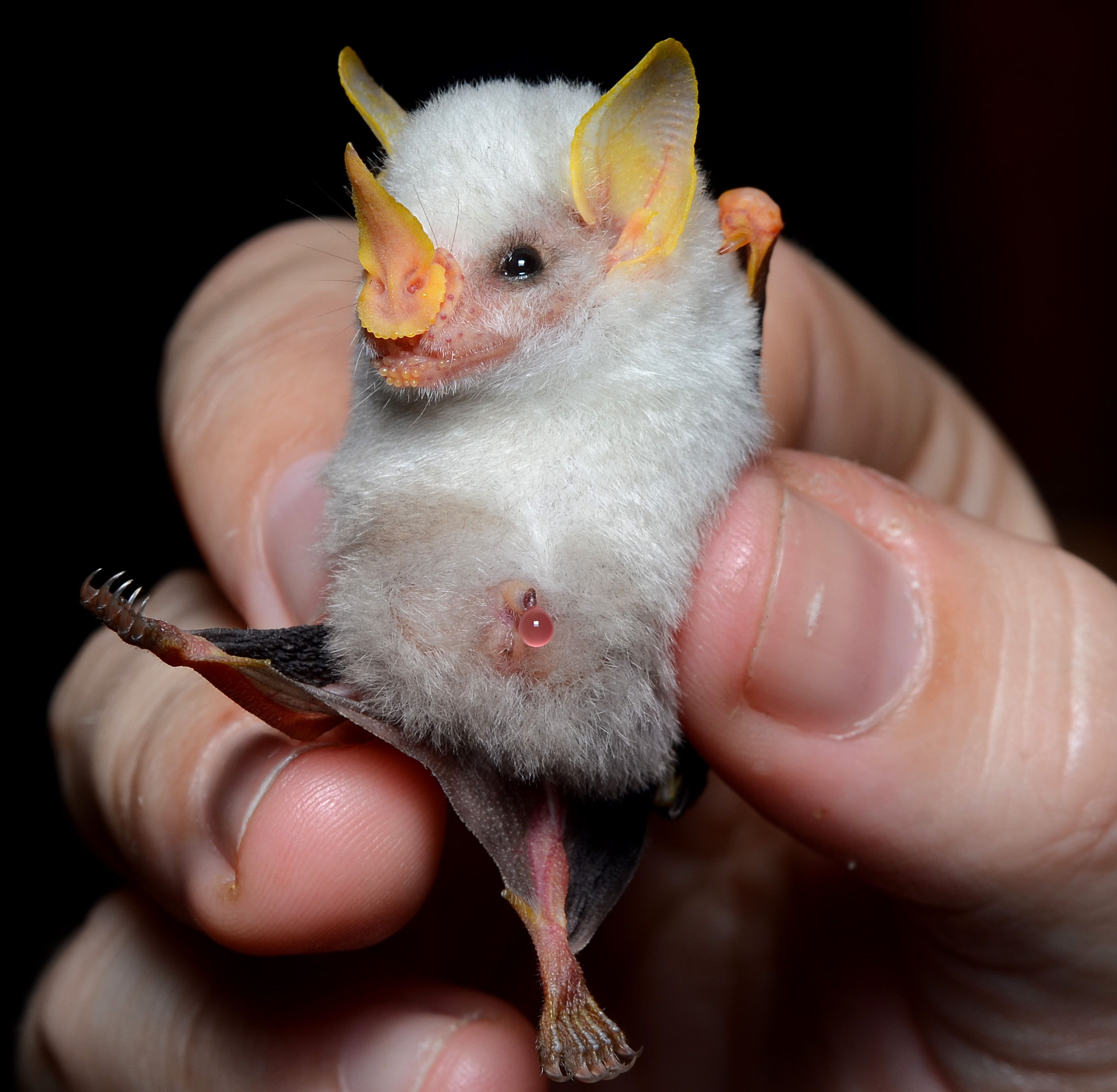 A Honduran tent bat mist-netted at La Selva Biological Station, Heredia, Costa Rica